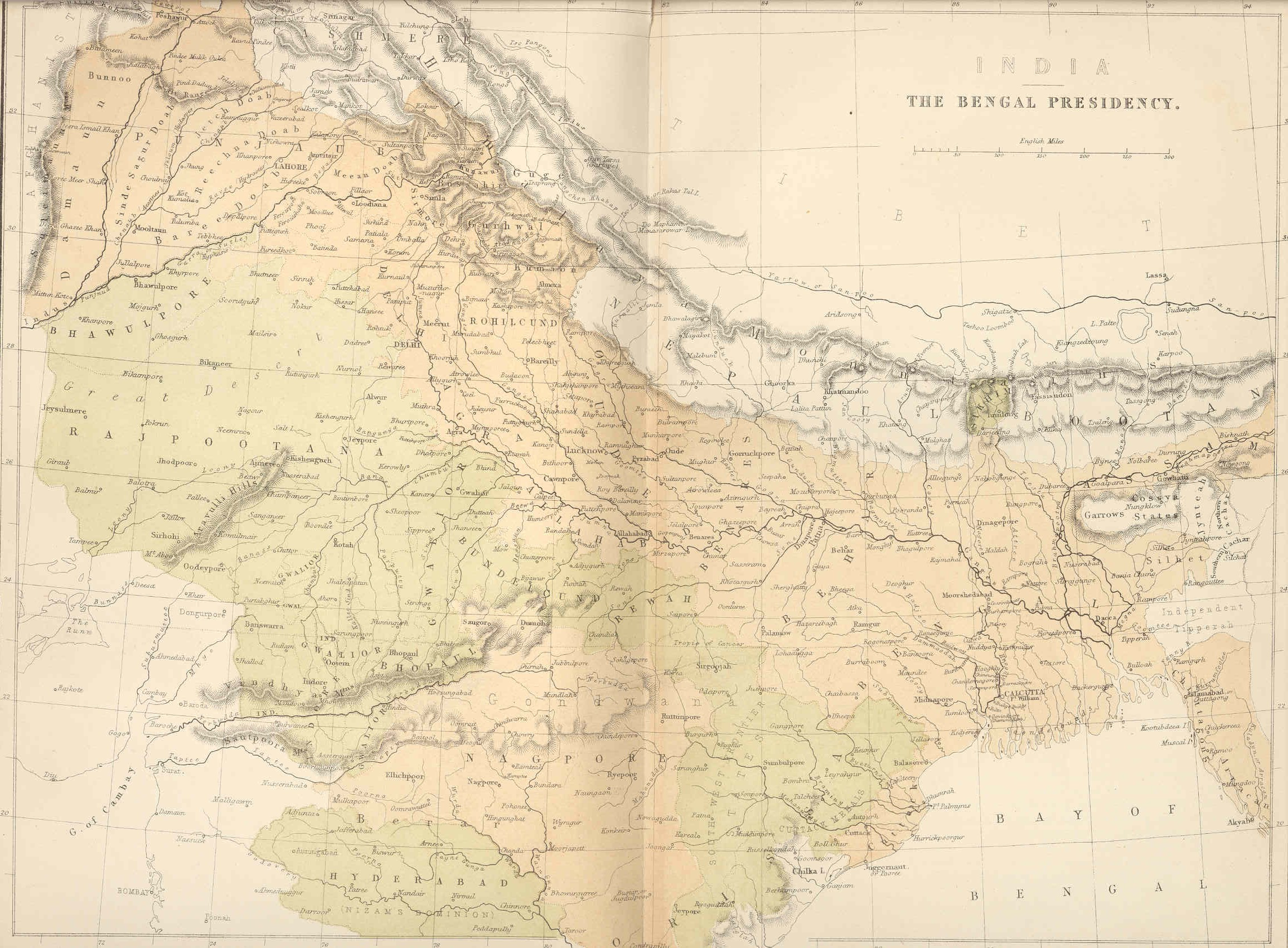 A Map of the Bengal Presidency at its fullest extent in 1858